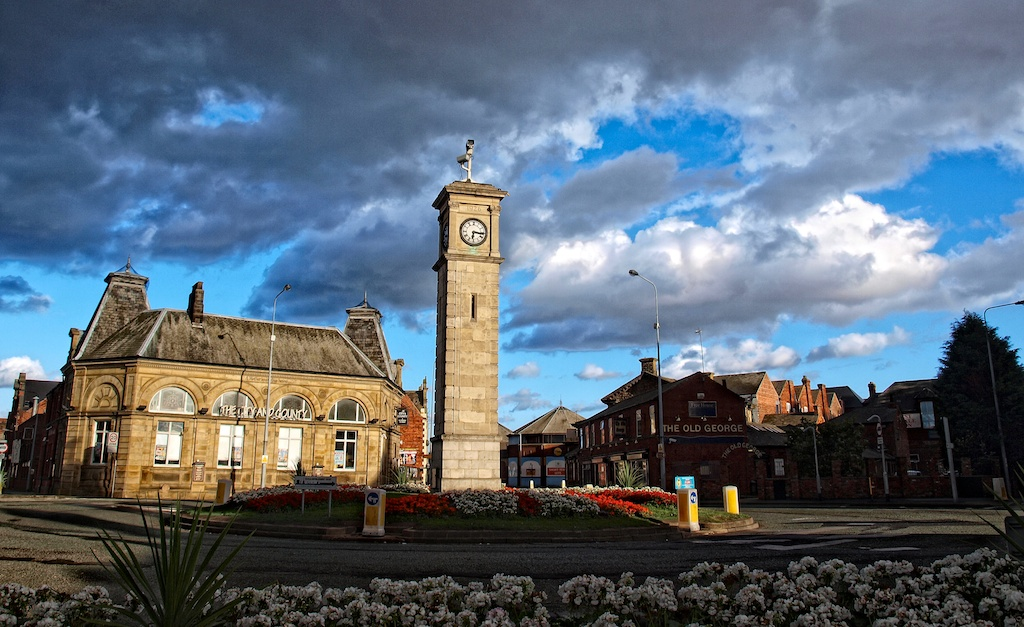 HDR of Goole Clock Tower, Goole, East Riding of Yorkshire, England.